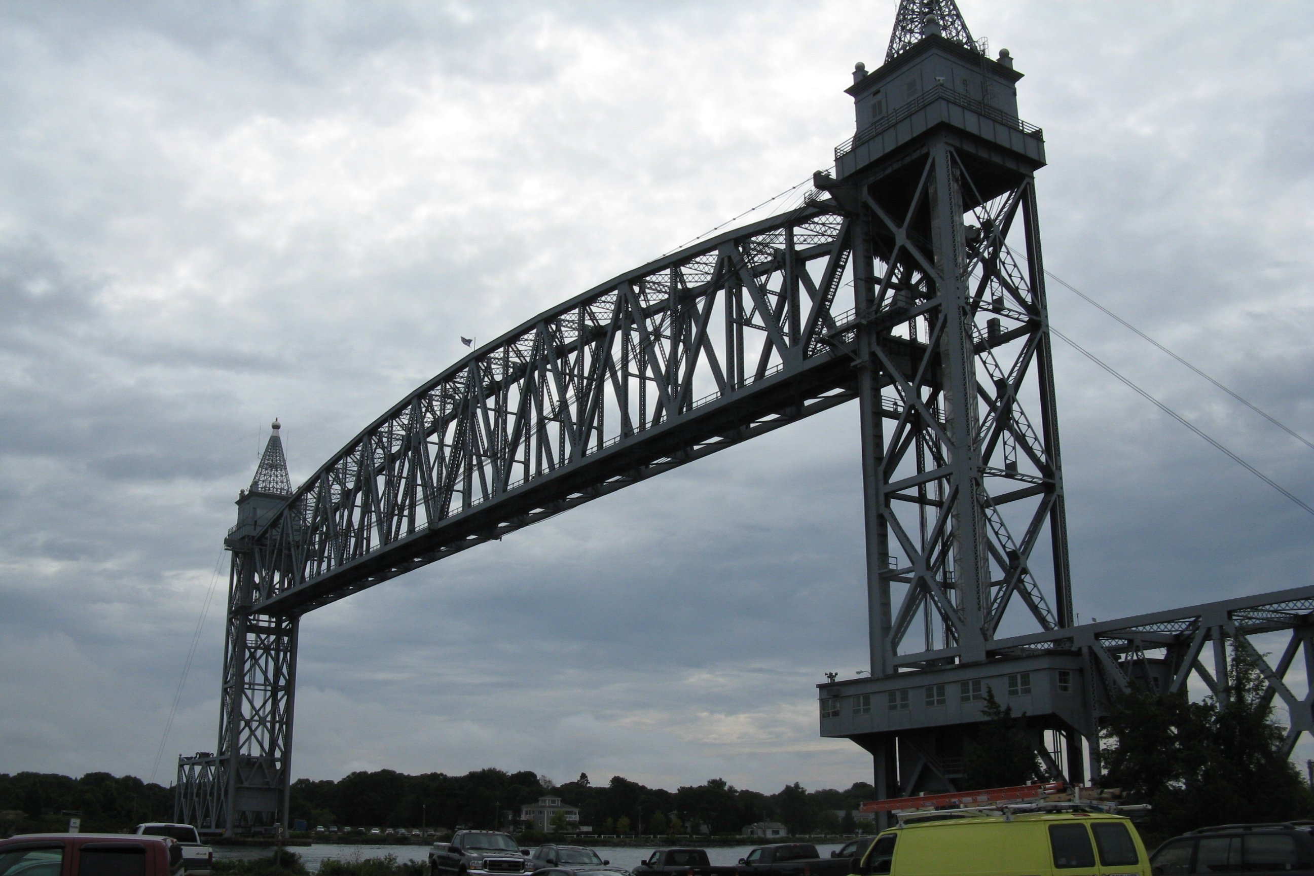 Buzzards Bay Railroad Bridge across Cape Cod Canal, Buzzards Bay Massachusetts